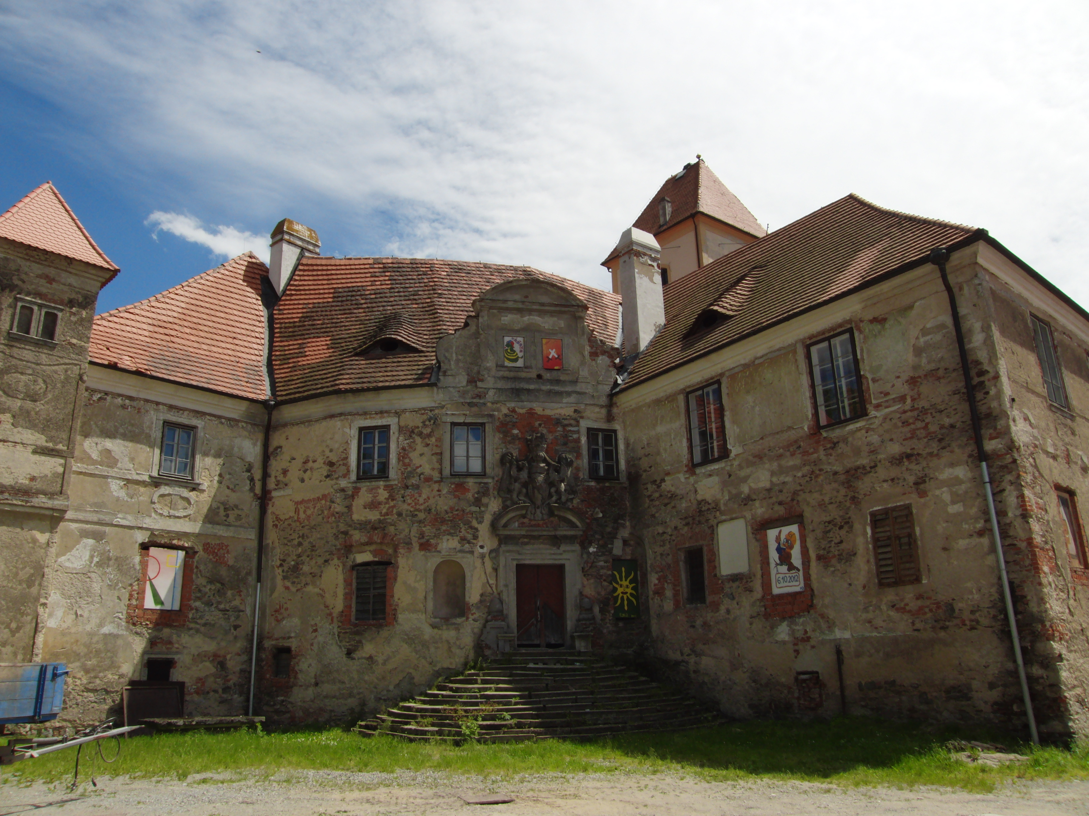 Poběžovice chateau (Domažlice district), cultural monument